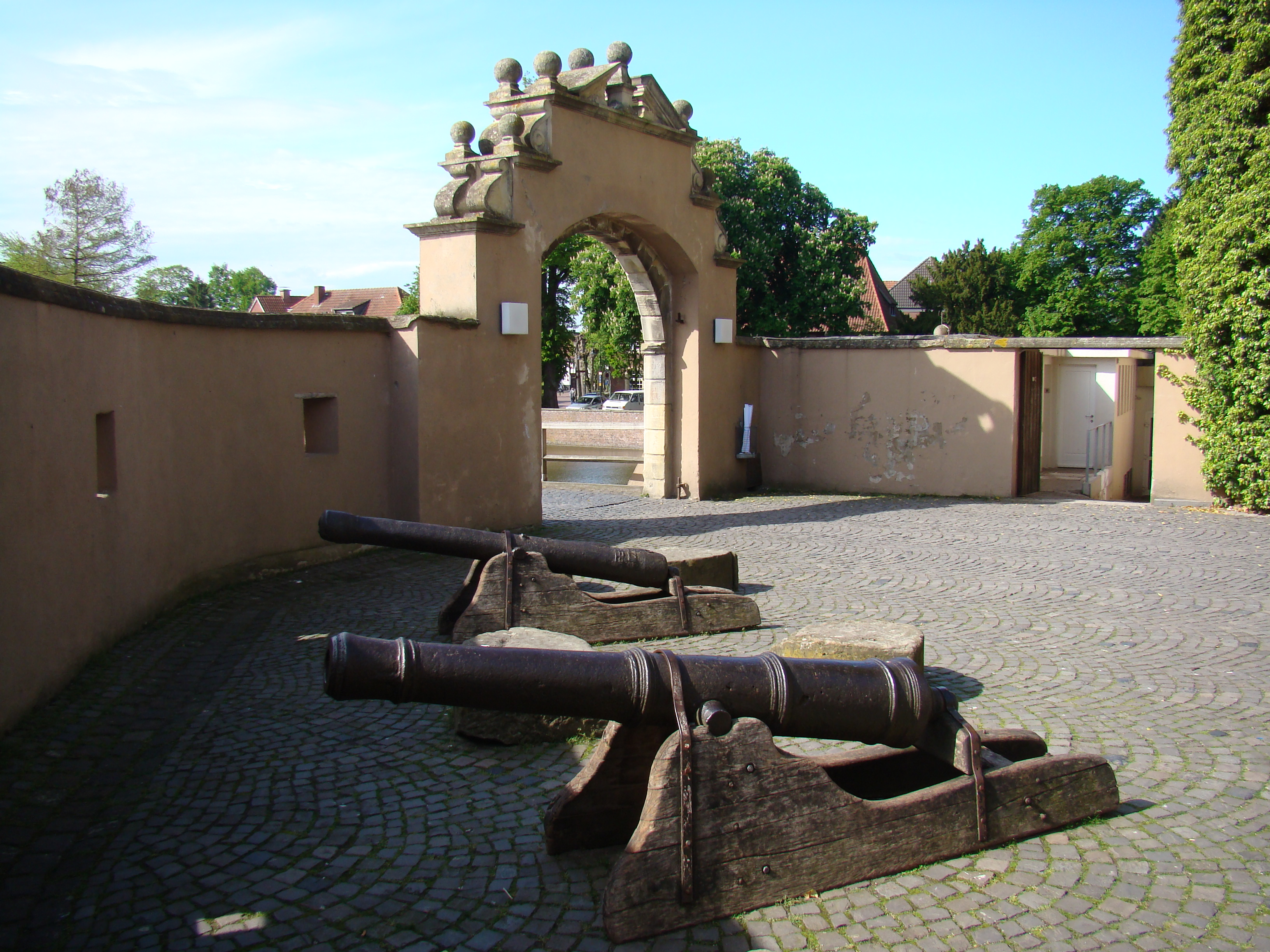 Castle Gemen (Germany)